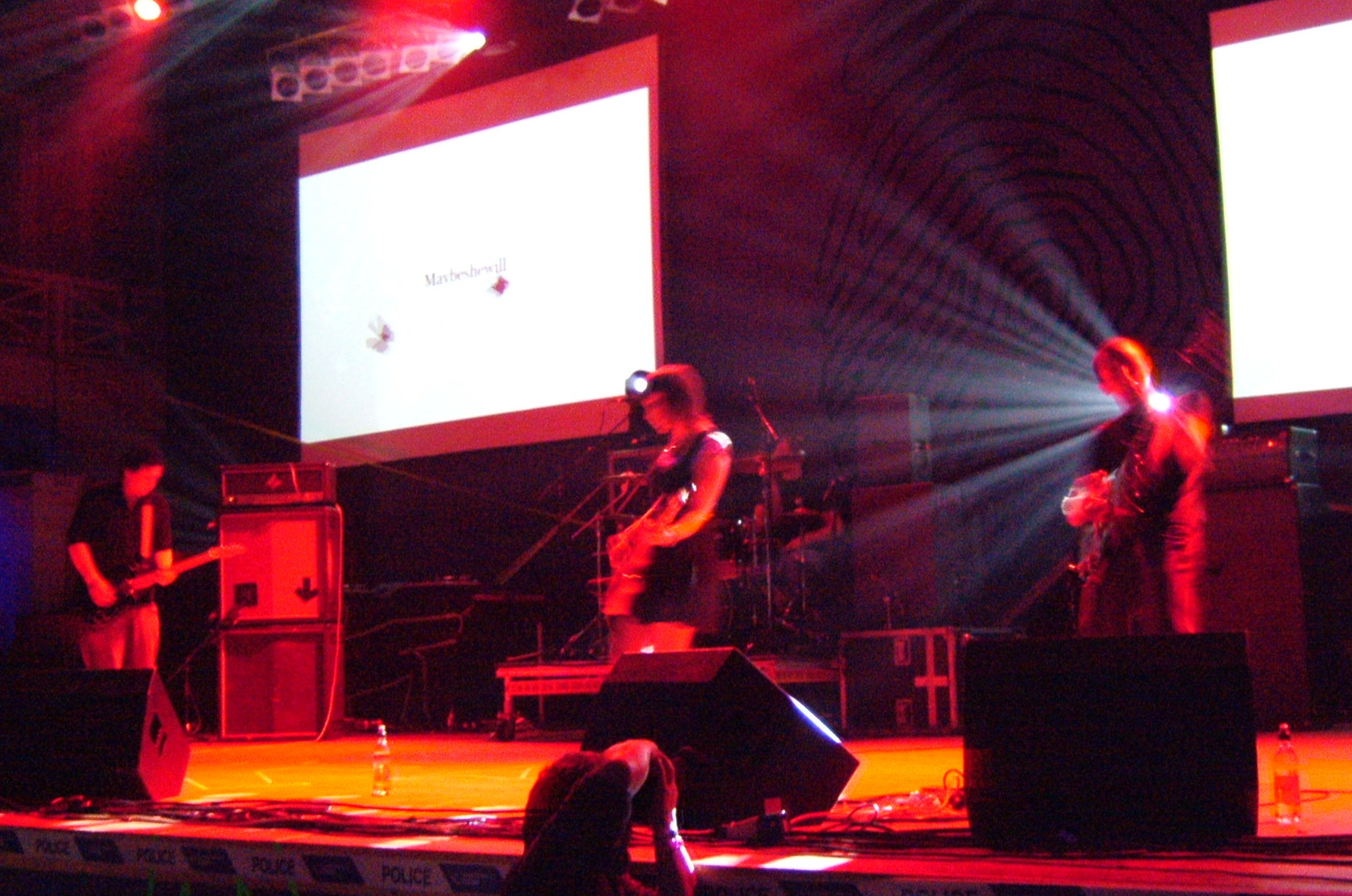 Maybeshewill playing the indoor stage at the Summer Sundae festival, Leicester, August 2008, complete with camera shake.